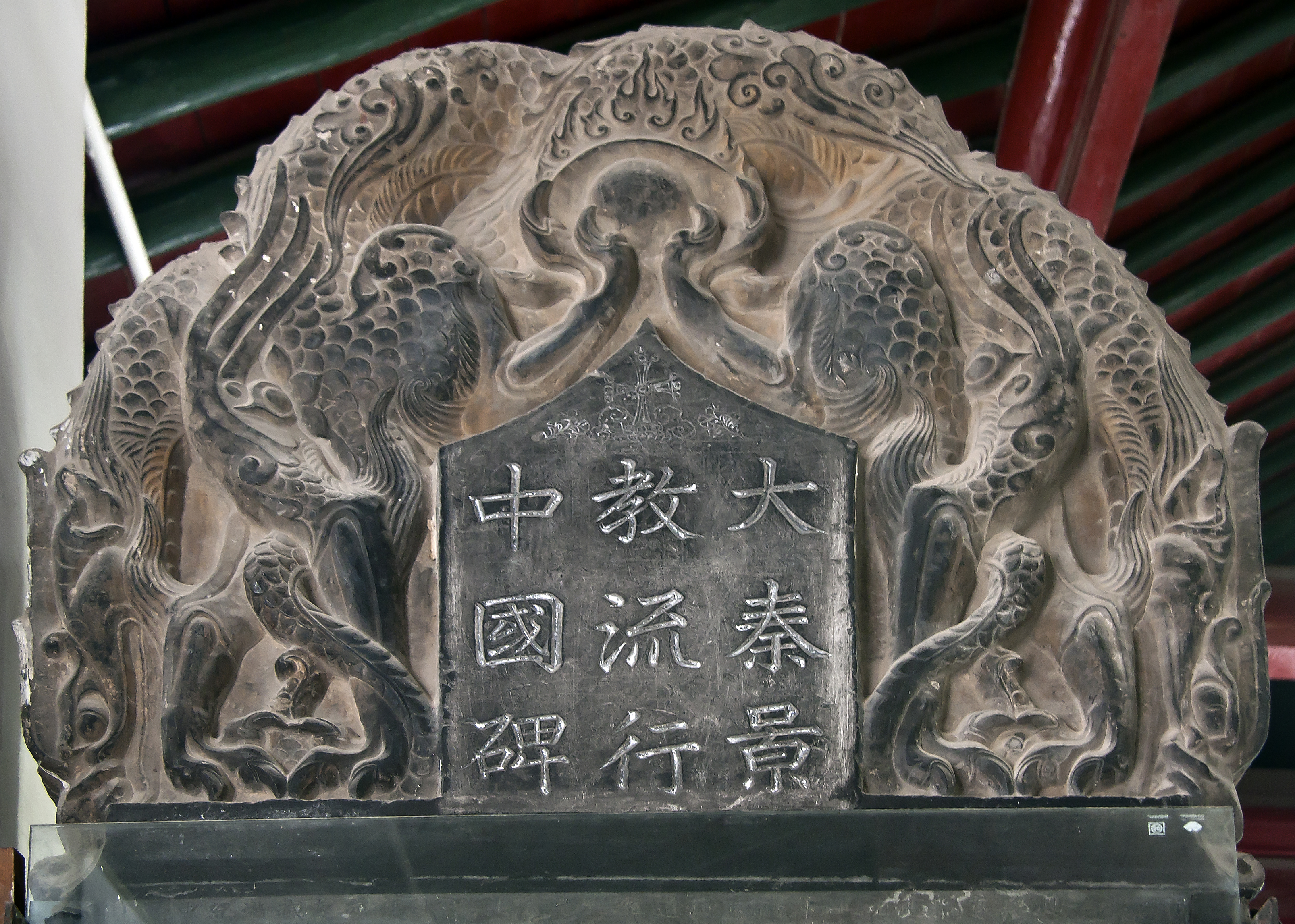 The top of the Nestorian stele in the Beilin Museum in Xi'an, China.